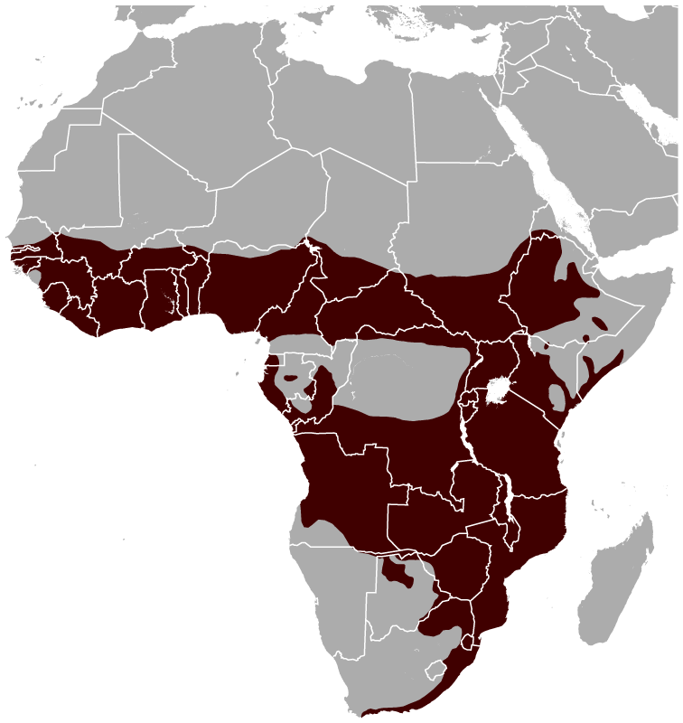 Geographical distribution of the Bushbuck Tragelaphus scriptus. The map was created using the Generic Mapping Tools, GMT, version 5.1.2.